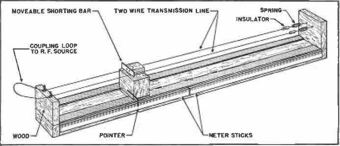 Lecher line wavemeter, a device used to measure the frequency of radio waves from radio transmitters, from a 1946 radio magazine. Invented in 1888 by Ernst Lecher, it consists of a length of parallel wire transmission line terminated with a shorting bar on a slider that can be slid up and down the line. Radio frequency current was coupled into the line by locating the wire loop (left) near the tank coil of the radio tranmsmitter. RF current flowed in the lines and reflected from the shorted end, creating standing waves of current and voltage along the line. Points of zero current, called nodes, occur every half-wavelength (λ/2) along the line. The nodes can be found by sliding the shorting bar up the line and noting when the RF output current of the transmitter dips. The location of the nodes are noted on the centimeter scale along the line. The wavelength of the radio waves is twice the distance between two successive nodes. The transmitter frequency f can be found from f = c / λ. The frame must be constructed from nonconductive material like wood in order to avoid desturbing the standing waves on the line. The Lecher line was widely used because it was a way to measure frequency without complicated electronics; this wavemeter could be constructed with simple materials found in any shop. It was used at shortwave frequencies, and particularly at VHF and UHF frequencies which were being explored during the 1930s, until frequency counters became available after World War 2.